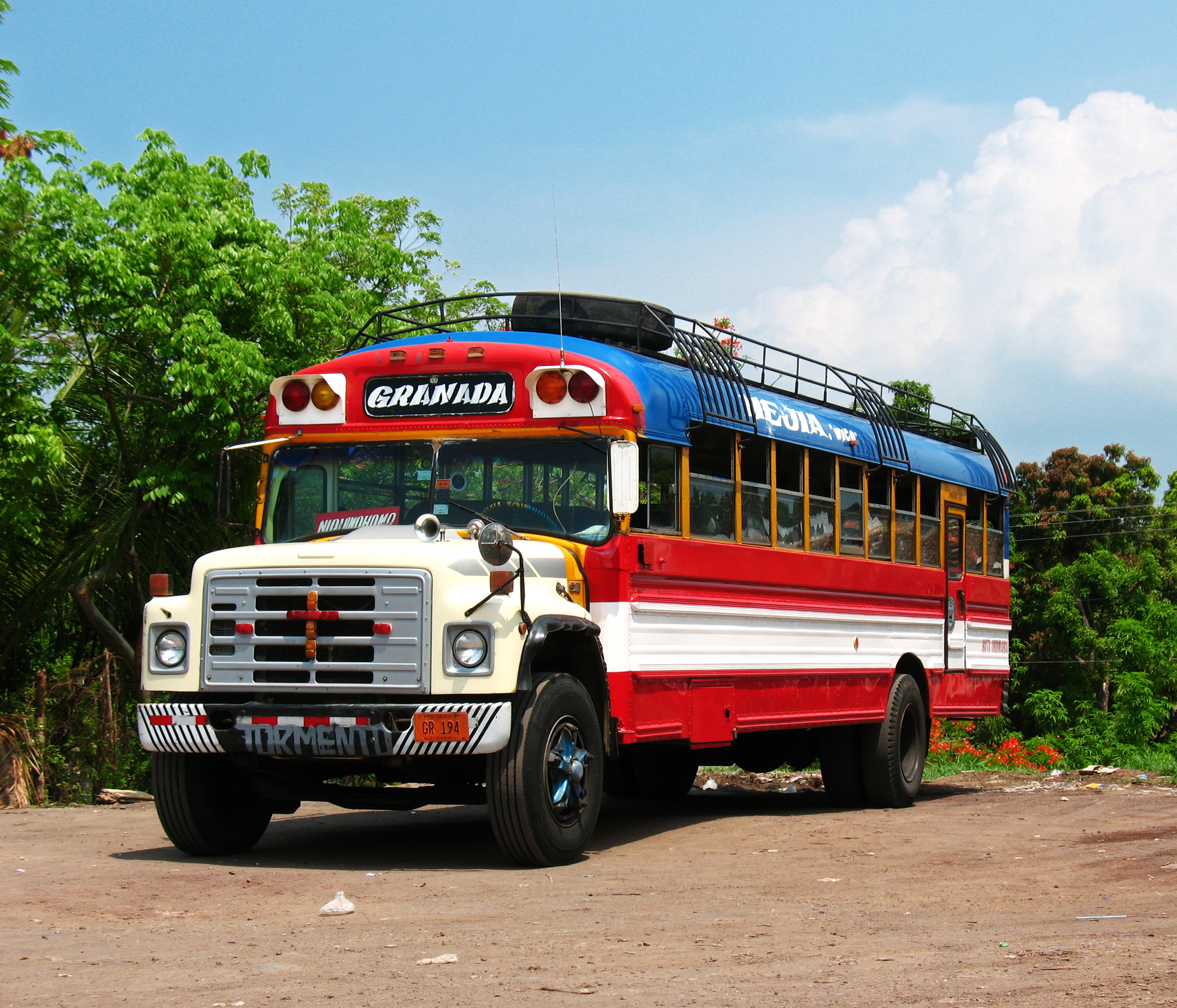 Bus in the city of Granada (Nicaragua)